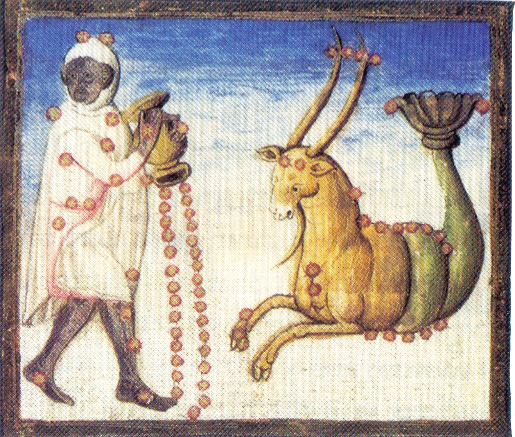 Mermen and Capricorn, book illustration in Miscellanea Astronomica, Rome, 15th century, Bibliotheca Apostolica e